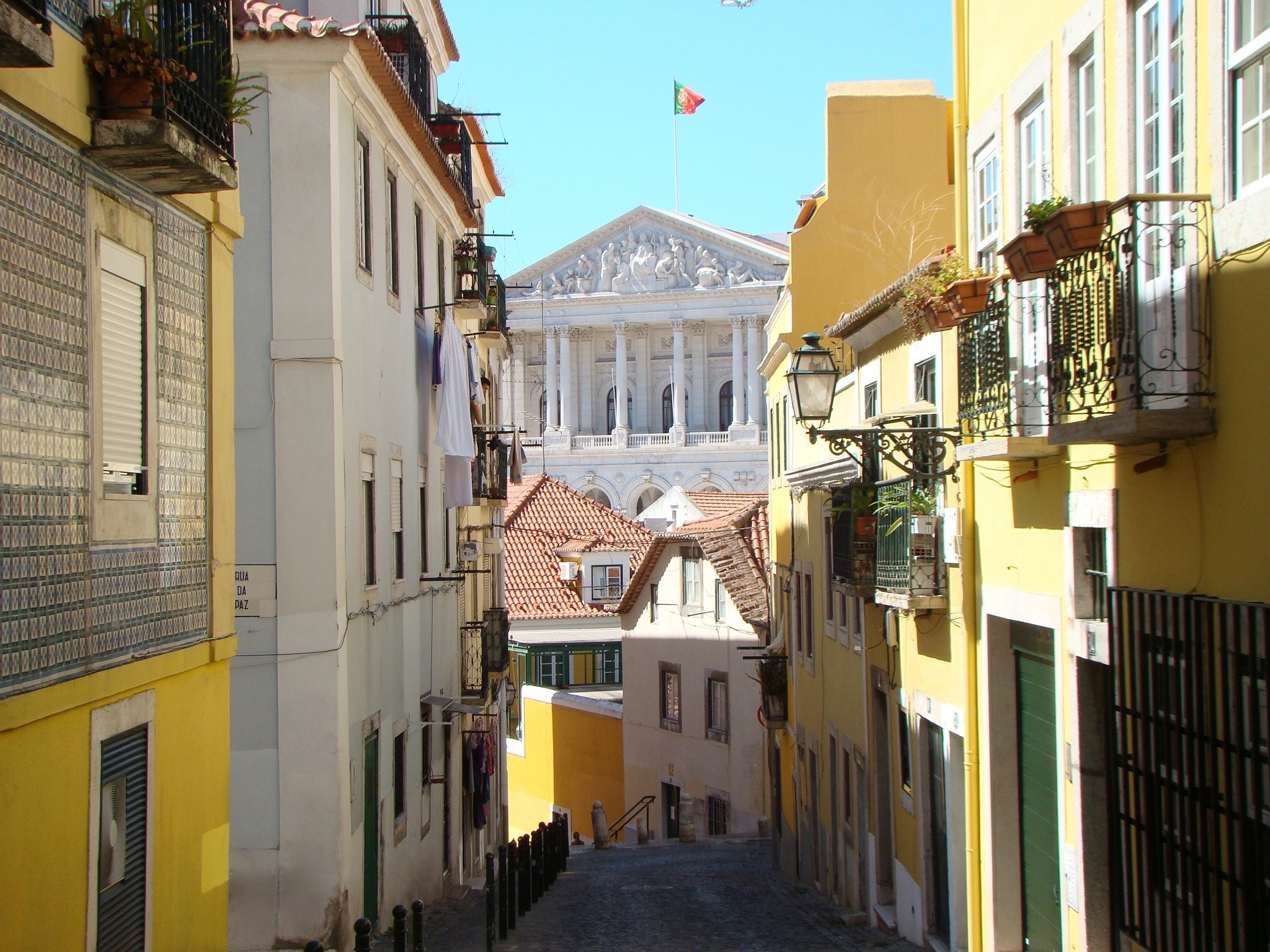 São Bento Palace, Lisbon, Portugal